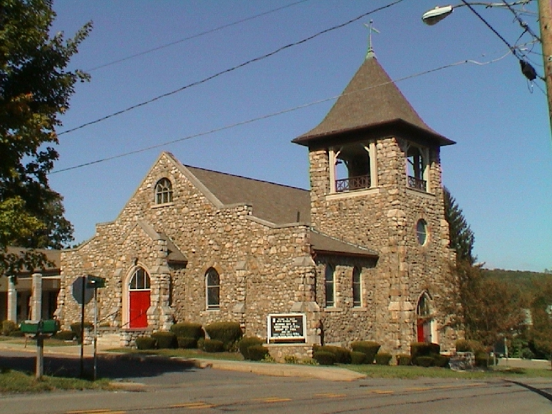 This is a picture of the Moscow United Methodist Church, Moscow PA